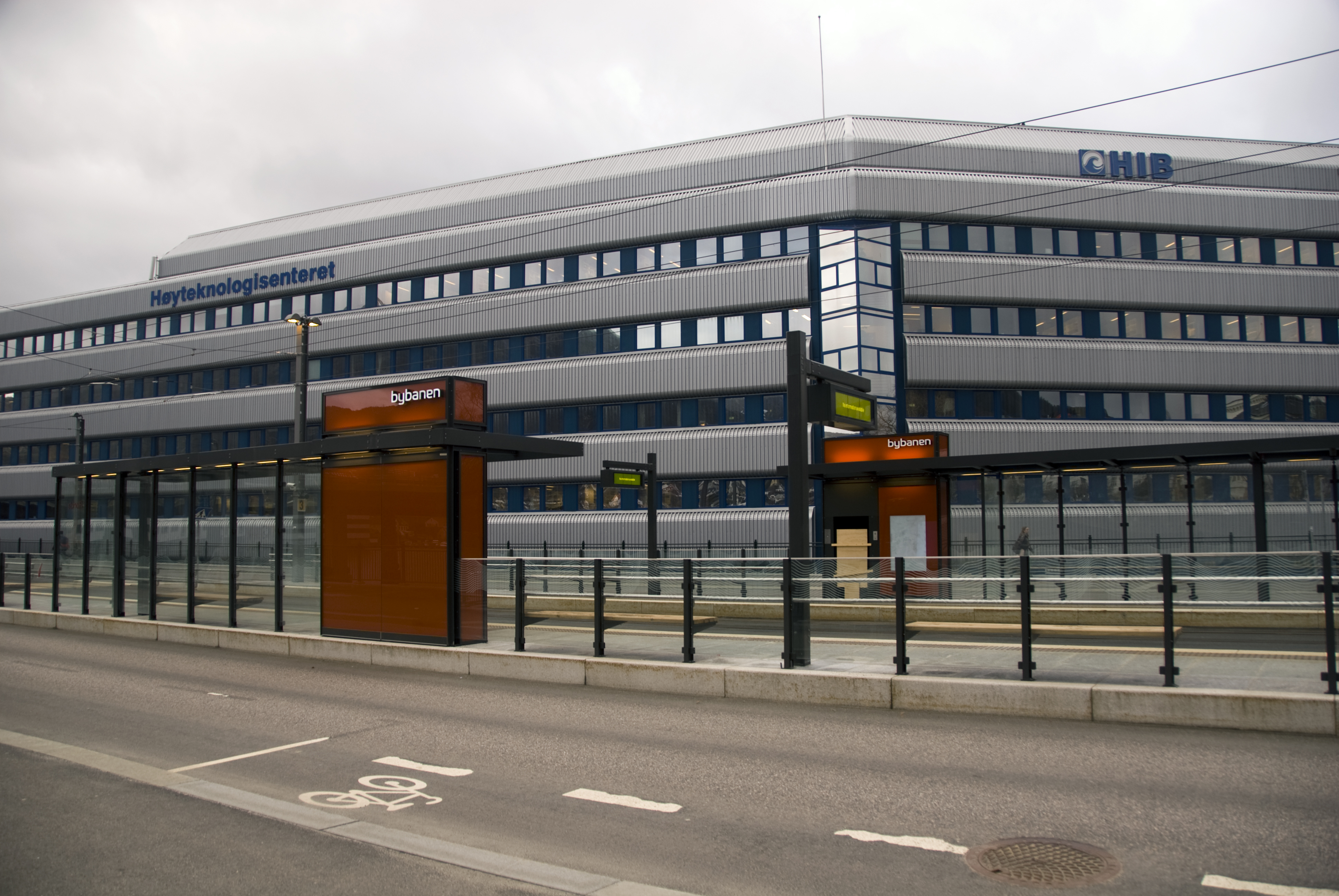 The Bergen Light Rail station Strømmen in front of Høyteknologisenteret